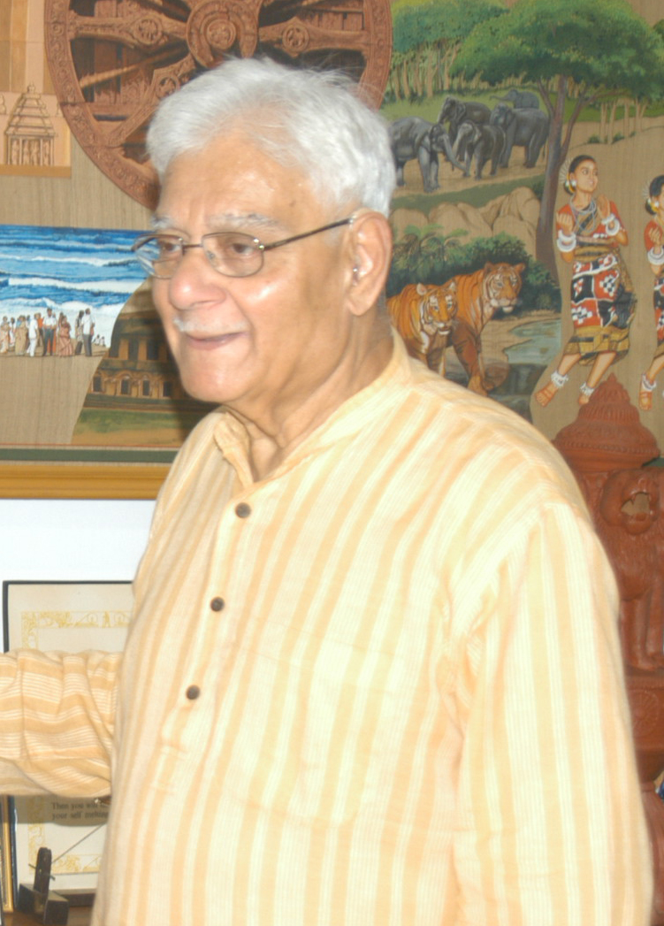 ଓଡ଼ିଆ: Murlidhar Chandrakant Bhandare This media file is uploaded with Odia loves Wikipedia